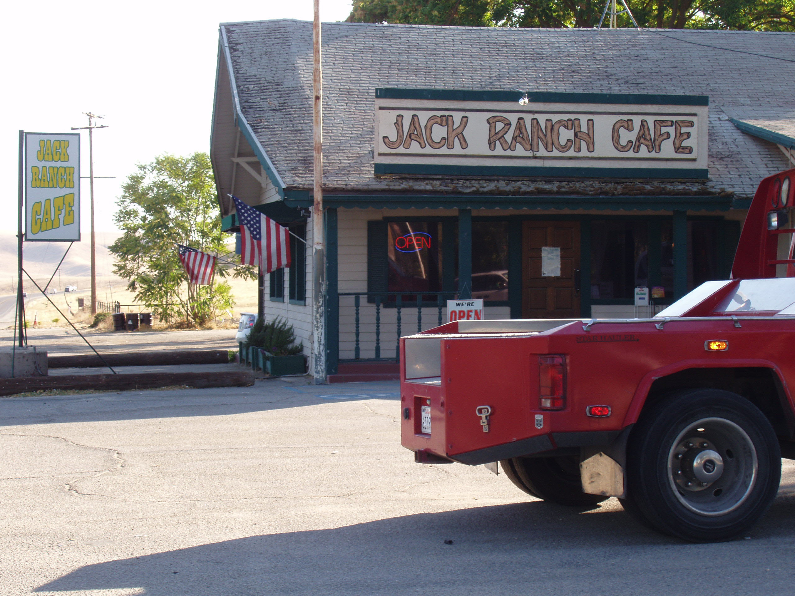 Jack Ranch Cafe in Cholame, eastern San Luis Obispo County, California.